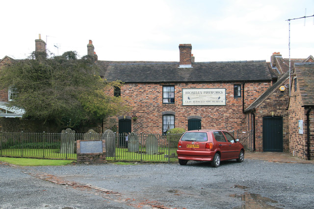 Broseley Pipeworks